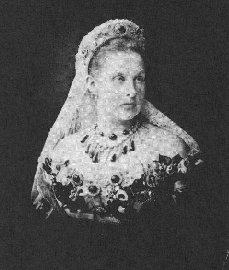 Olga Constantinovna of Russia, later Queen of Greece